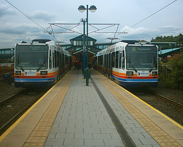 Sheffield Supetram at Meadowhall.